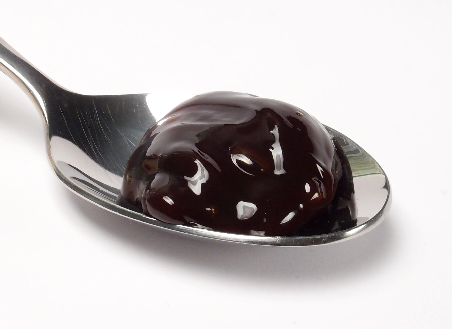 A spoonful of “rinse appelstroop” (sweet and sour apple butter), a Dutch syrup specialty made from apple and sugar beet juice. This particular product was made by Canisius, Schinnen, Limburg province.